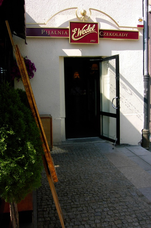 I don't know how to translate this, but this a place is basically where you can come and enjoy drinking chocolate. Wedel is known as one of the best producers of chocolate in the world.